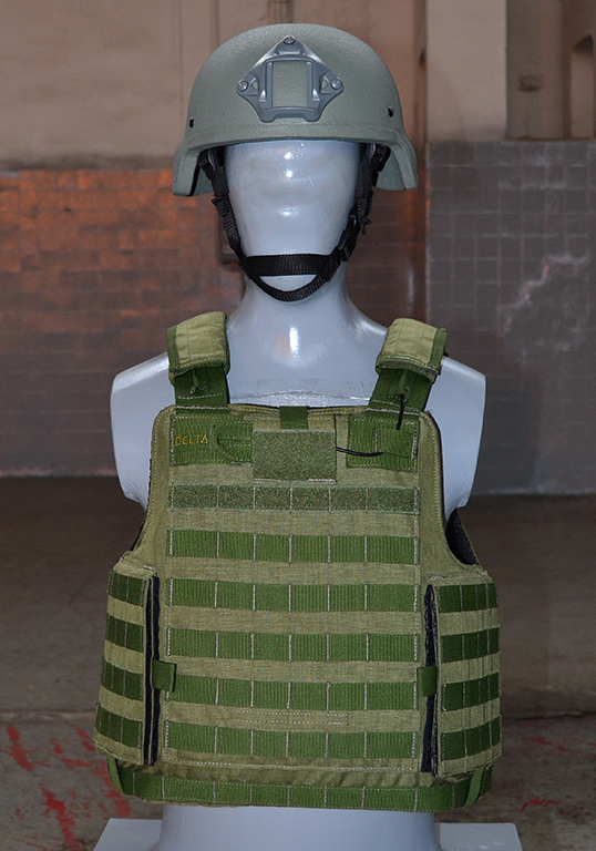 georgian made tactical vest